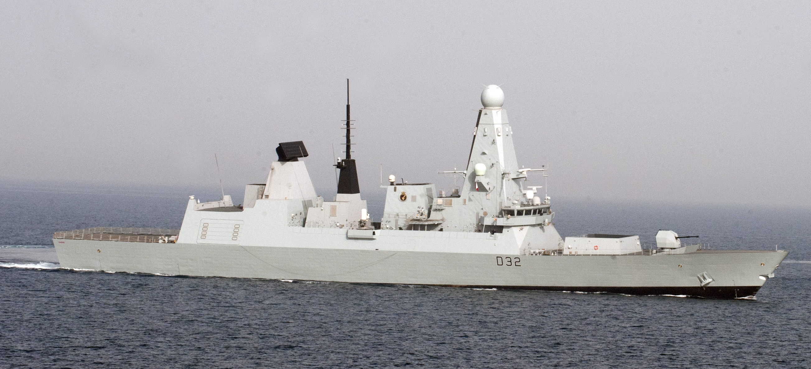 Royal Navy destroyer HMS Daring (D 32) transits the Arabian Gulf. Daring is assigned to Combined Task Force 152, a multi-national, mission-based task force under Combined Maritime Forces to conduct theater security cooperation activities with regional partners and conducts maritime security operations in the Arabian Gulf.